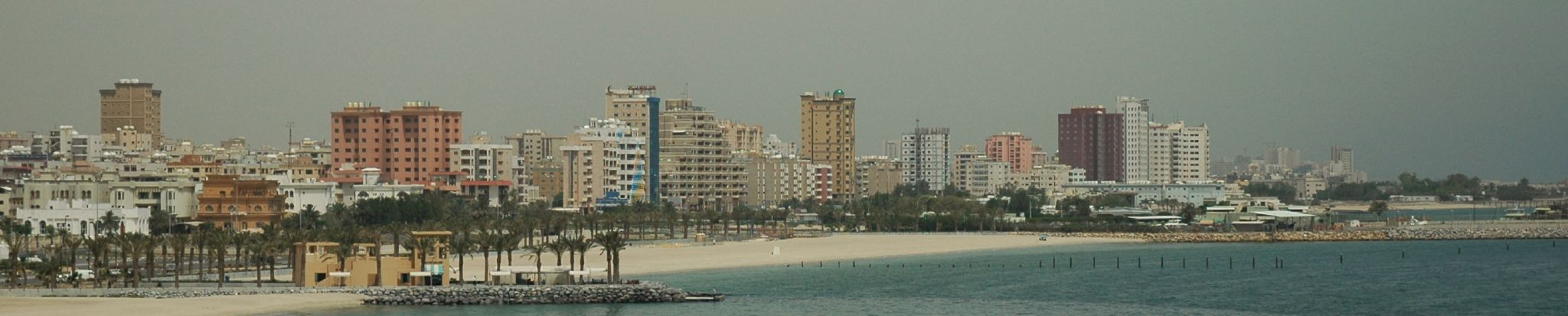 Mangaf by Sea